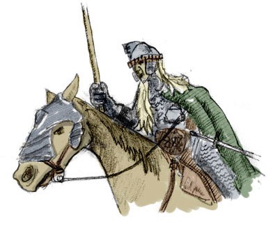 Drawing : Rohan horseman (cavalier Rohan)